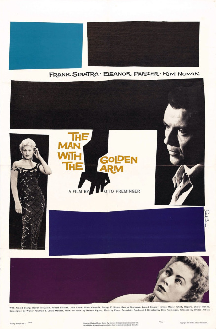 Original theatrical release poster for the 1959 movie, The Man with the Golden Arm, by Saul Bass